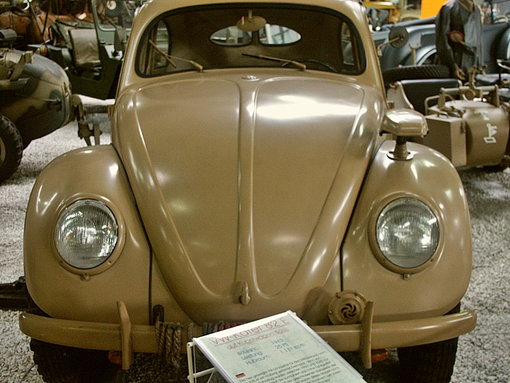 Built in small batches between 1943 and 1945, military use only